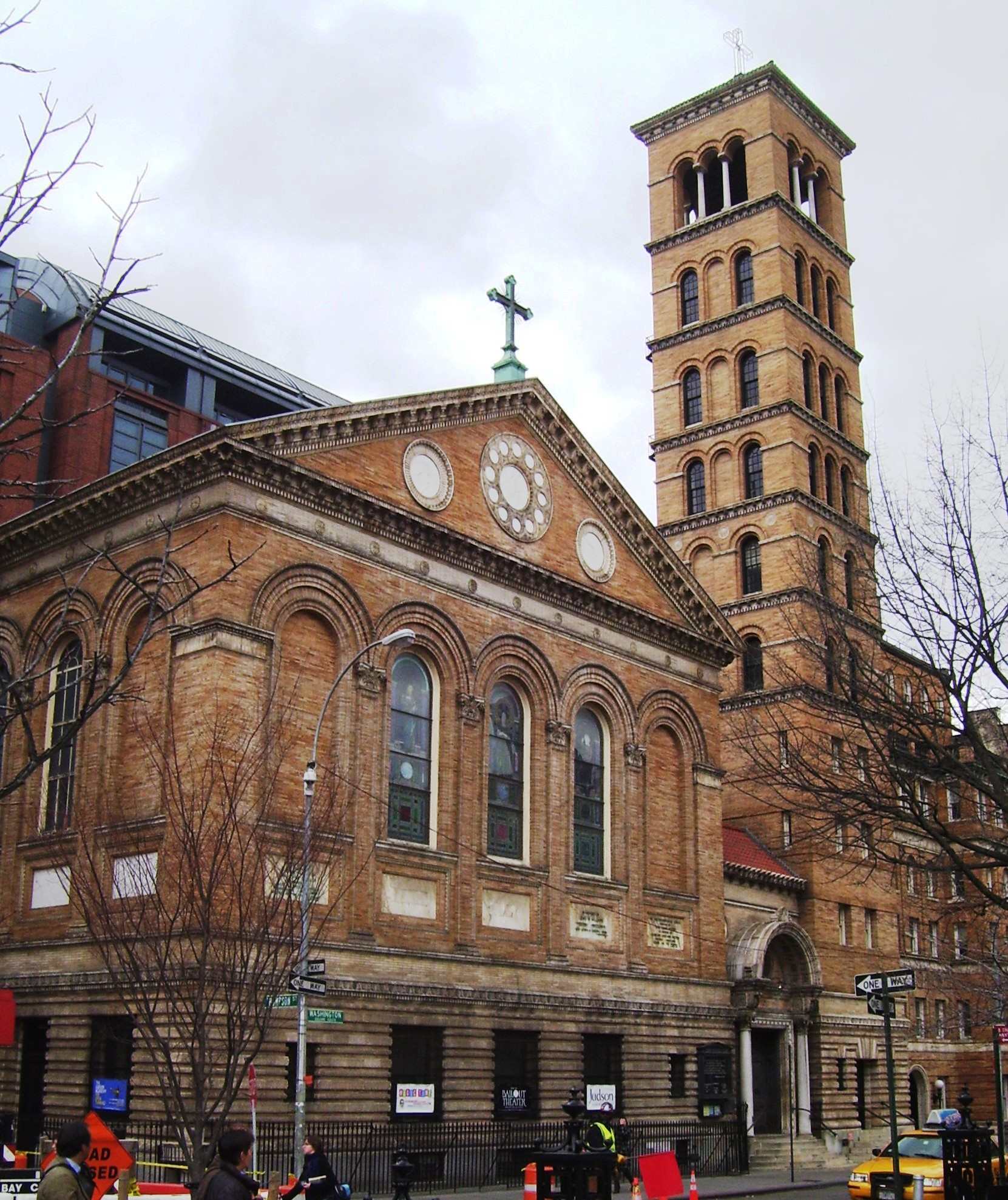 Judson Memorial Church on Washington Square South between Thompson and Sullivan Streets in the Greenwich Village neighborhood of Manhattan, New York City, seen from the east.